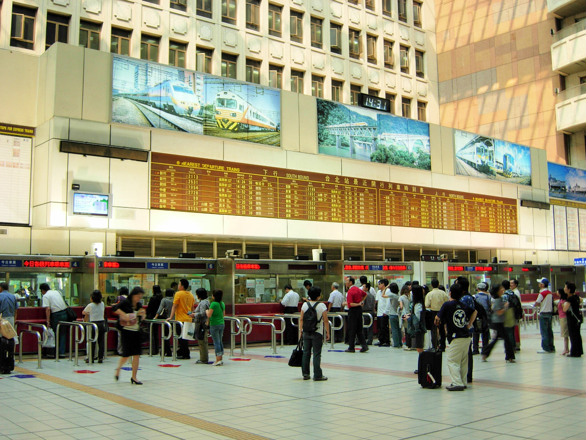 TRA Taipei Station Central Ticket Booth Bân-lâm-gú: Tâi-uân Thih-lōo-kio̍k Tâi-pak Tshia-tsām bē phiò tuā-thiann 臺灣鐵路局臺北車站賣票大廳。